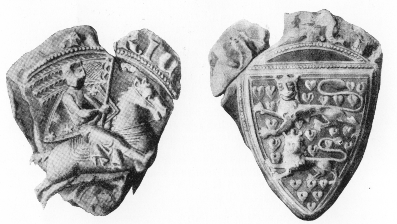 Seal of Erik Abelsøn (Abelsen), Duke of Schleswig. This seal is known from documents dating 1264-1272.